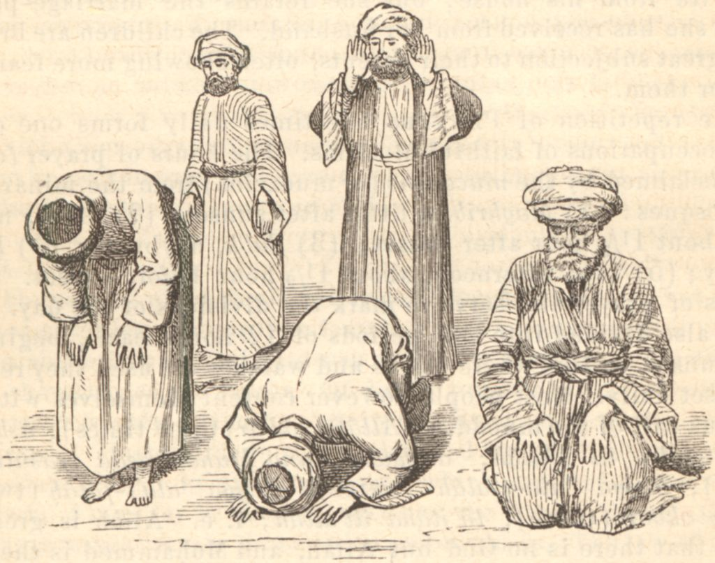 Five men praying. Line drawing.